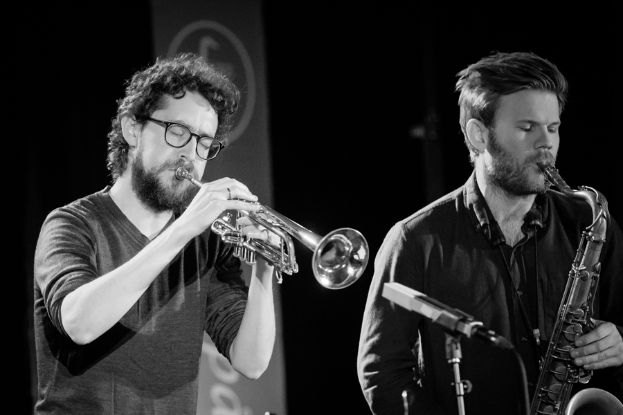 Significant Time at the stage at Thon Hotel Jølster. The concert was part of Jazz på Jølst and took place on 14. October 2017. Lineup: Øyvind Dale (piano), Signe Irene Time (vocal), Fredrik Luhr Dietrichson (double bass), André Roligheten (saxophone), Hayden Powell (trumpet) and Raymond Lavik (drums).